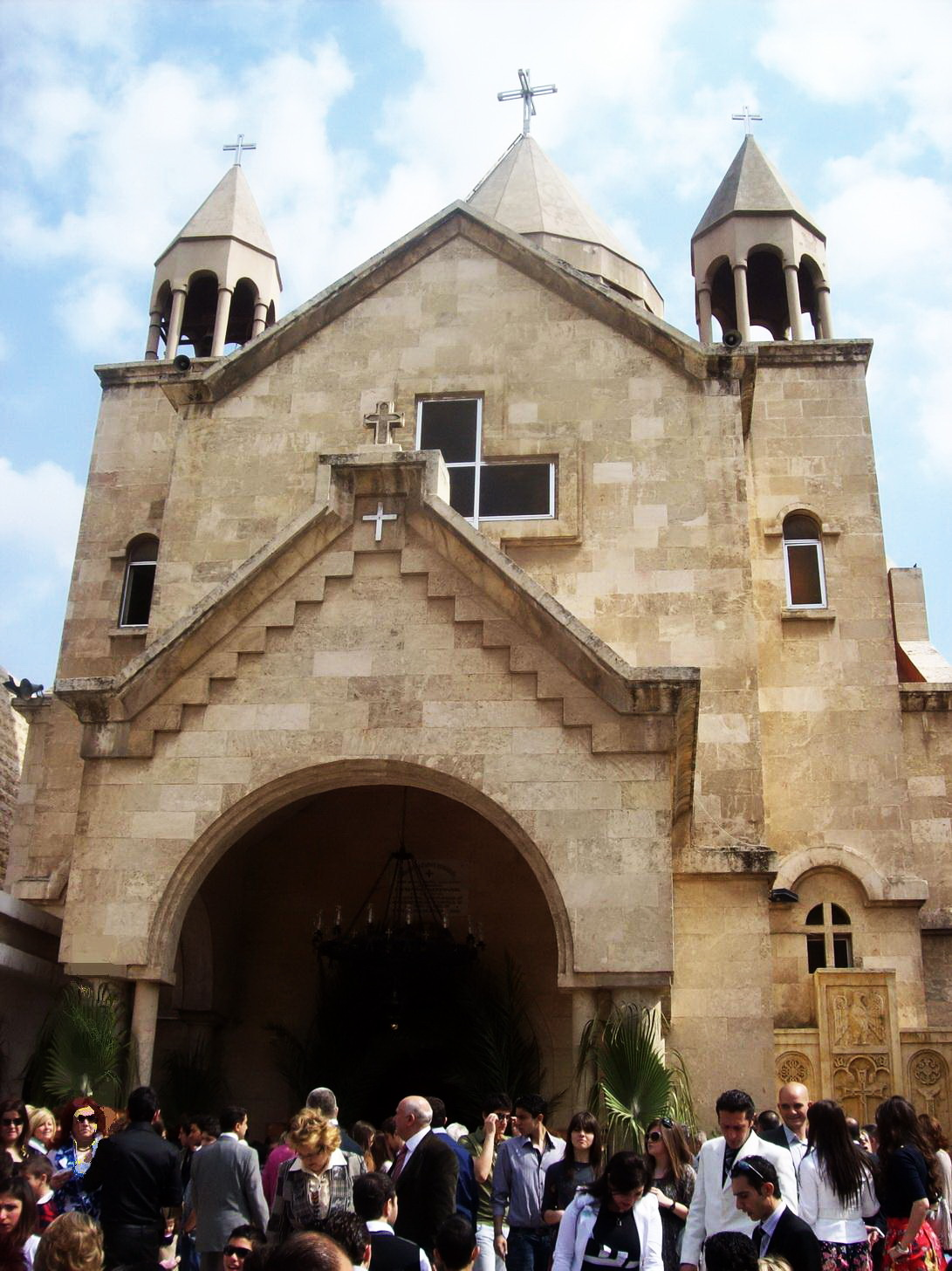 Holy Mother of God Armenian church, Aleppo, during Palm Sunday